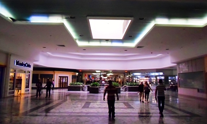 Mall north concourse